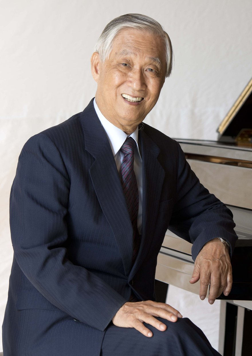 Taiwanese Composer Mao-Shuen Chen, June 2013